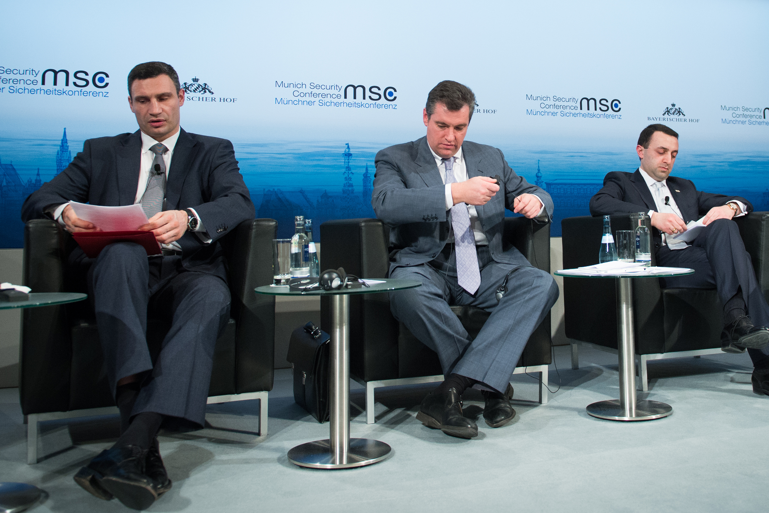 50th Munich Security Conference 2014: A Focus on Central and Eastern Europe: Vitali Klychko (Party Chairman, Ukrainian Democratic Alliance for Reforms), Leonid Slutsky (Member of the State Duma, Chairman of the Committee on the Commonwealth of Independent States, Eurasian Integration and Compatriot Relationships, Russian Federation) and Irakli Garibashvili (Prime Minister, Georgia).